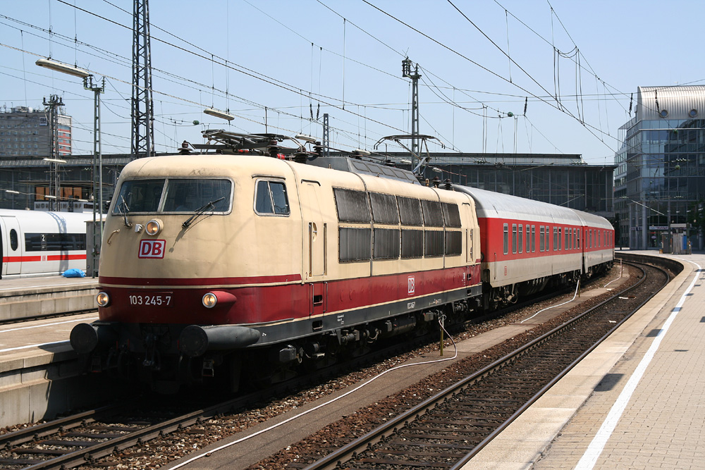 103 245 in front of an Autozug, headed for Salzburg, at Munich central station